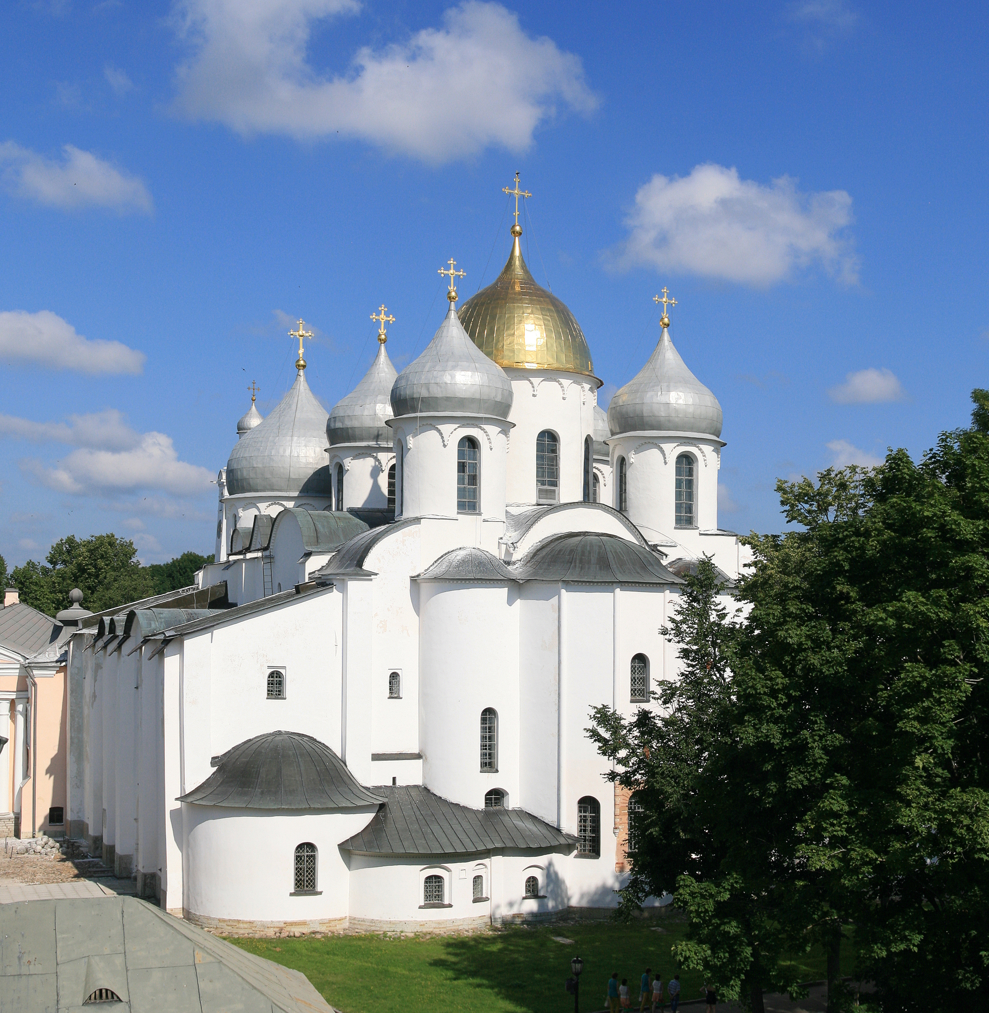 Cmique Itom: Saint Sophia Cathedral in Novgorod, 1045–1050